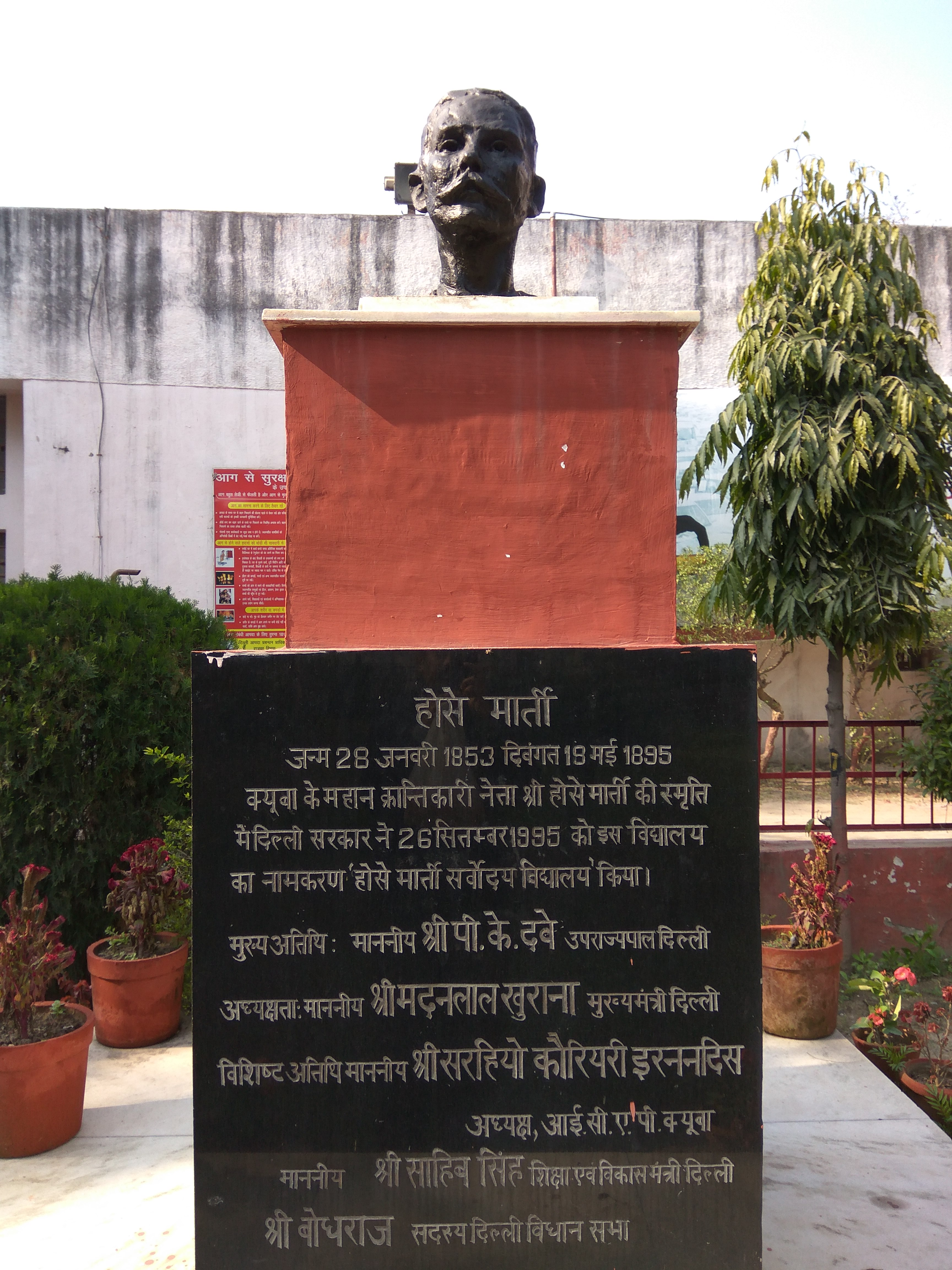 Statue of Cuban national hero Jose Marti in a government school named after him in Delhi